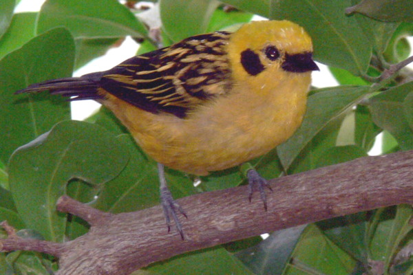 Tangara arthus taken at the Tierpark Berlin, Germany